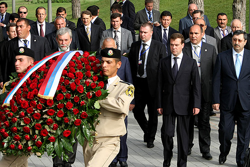 BAKU. Laying a wreath on the monument to fallen heroes.